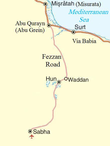 A map of mid-Libya featuring parts of Via Balbia and Fezzan road.